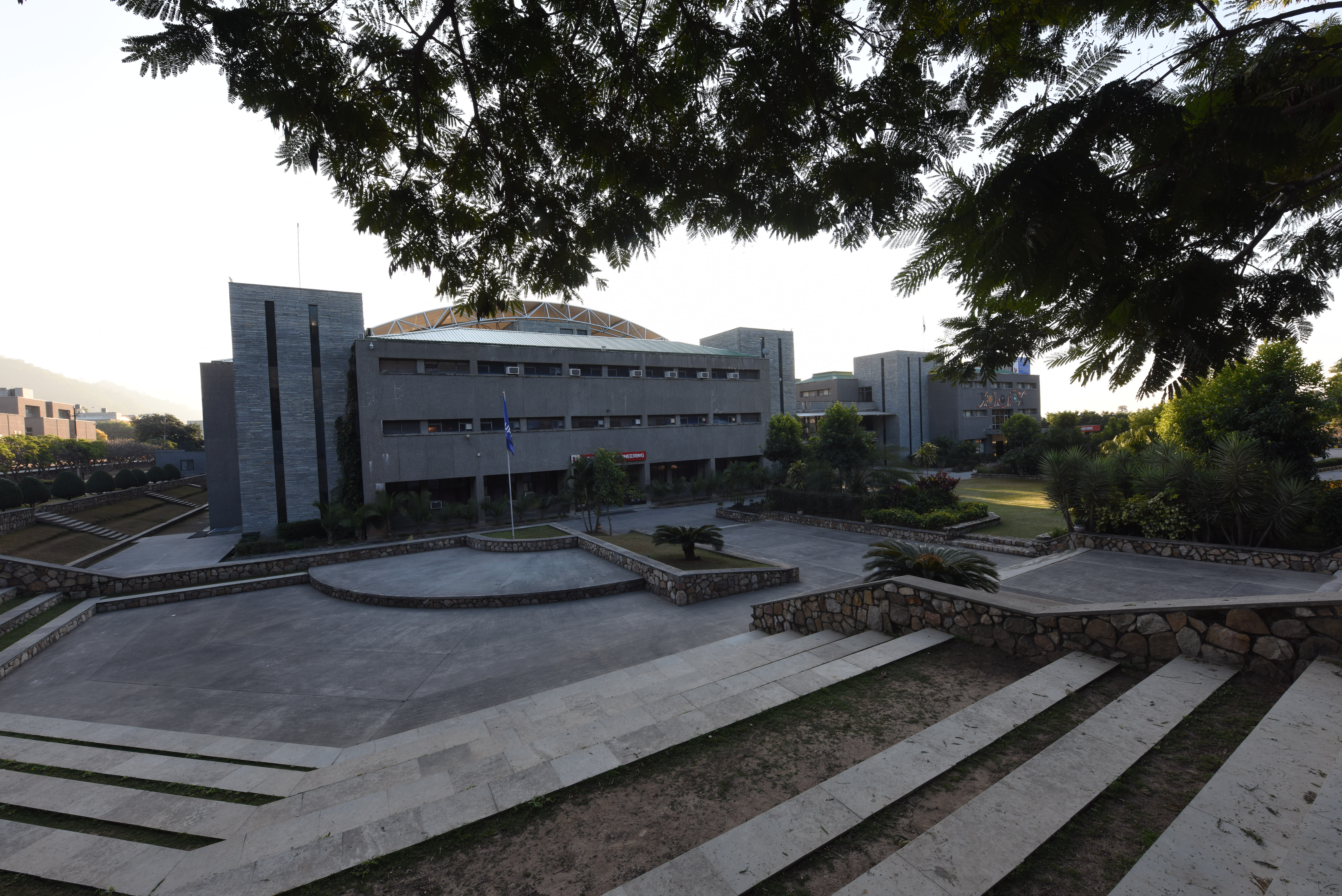 Beautiful Campus of UPES Dehradun